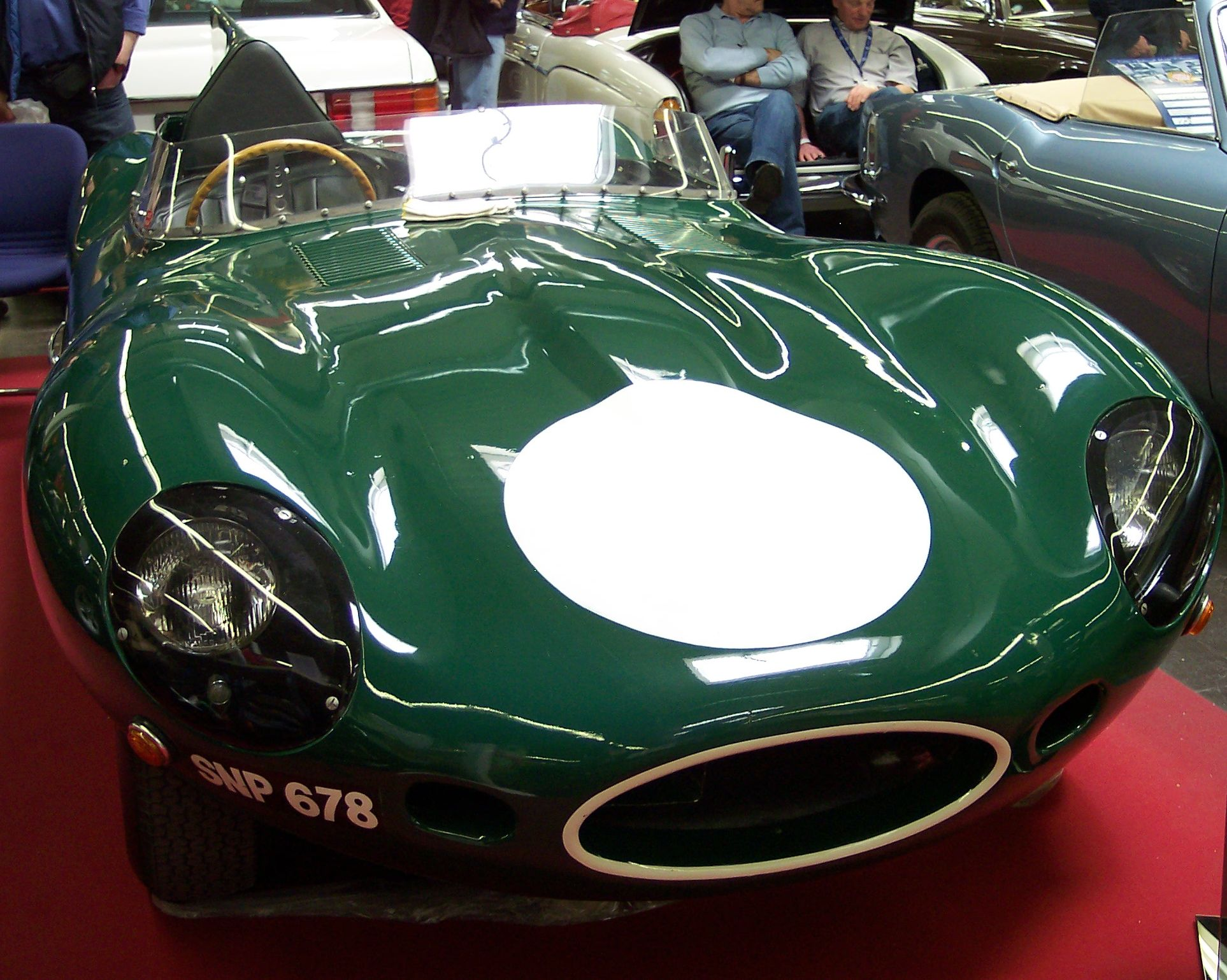 Lynx Jaguar D-Type replica